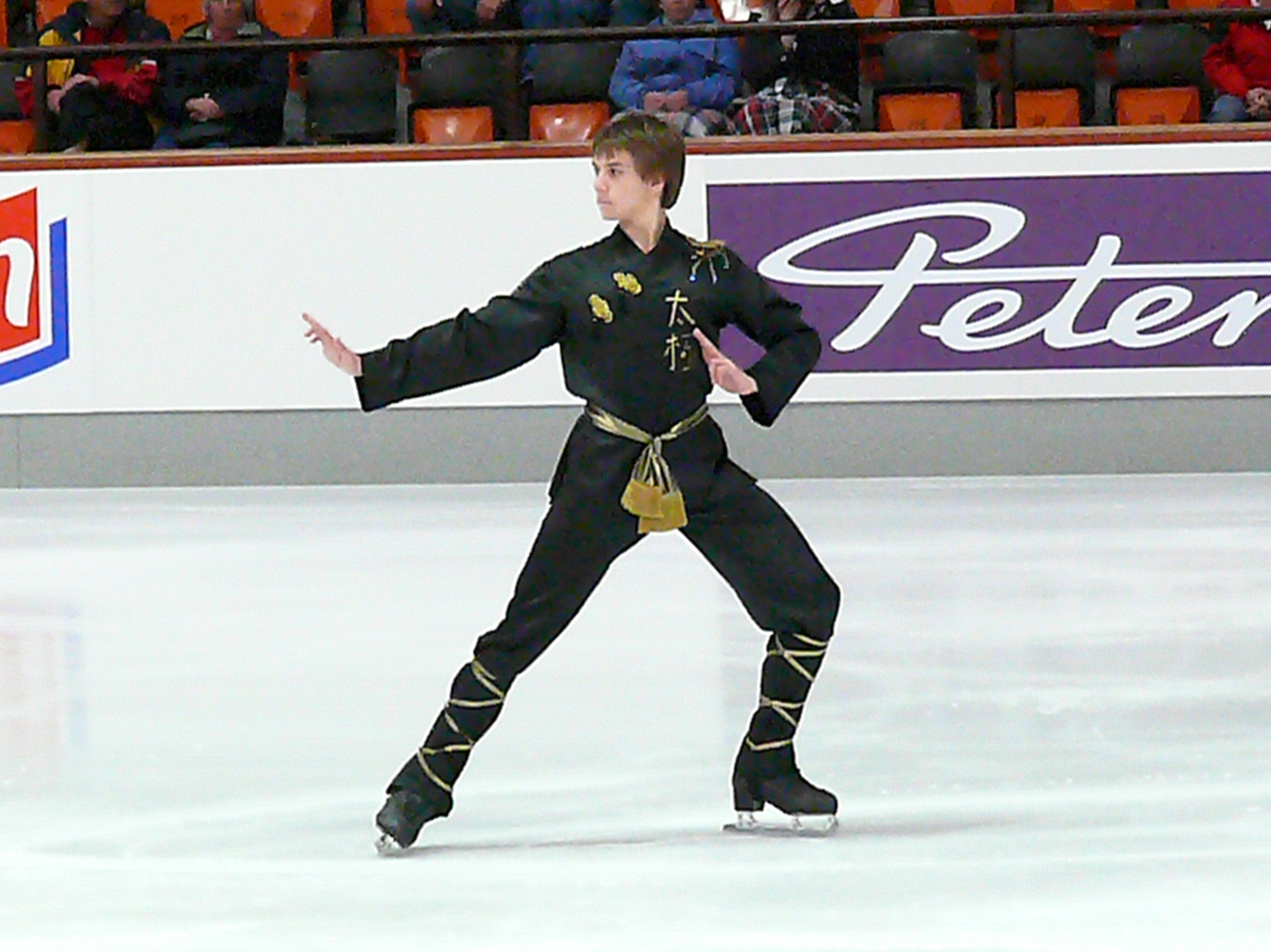 Peter Liebers (GER) at the Nebelhorn Trophy 2007 in Oberstdorf